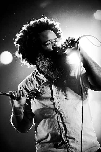 Guitarist and singer Kyp Malone performing with TV on the Radio.